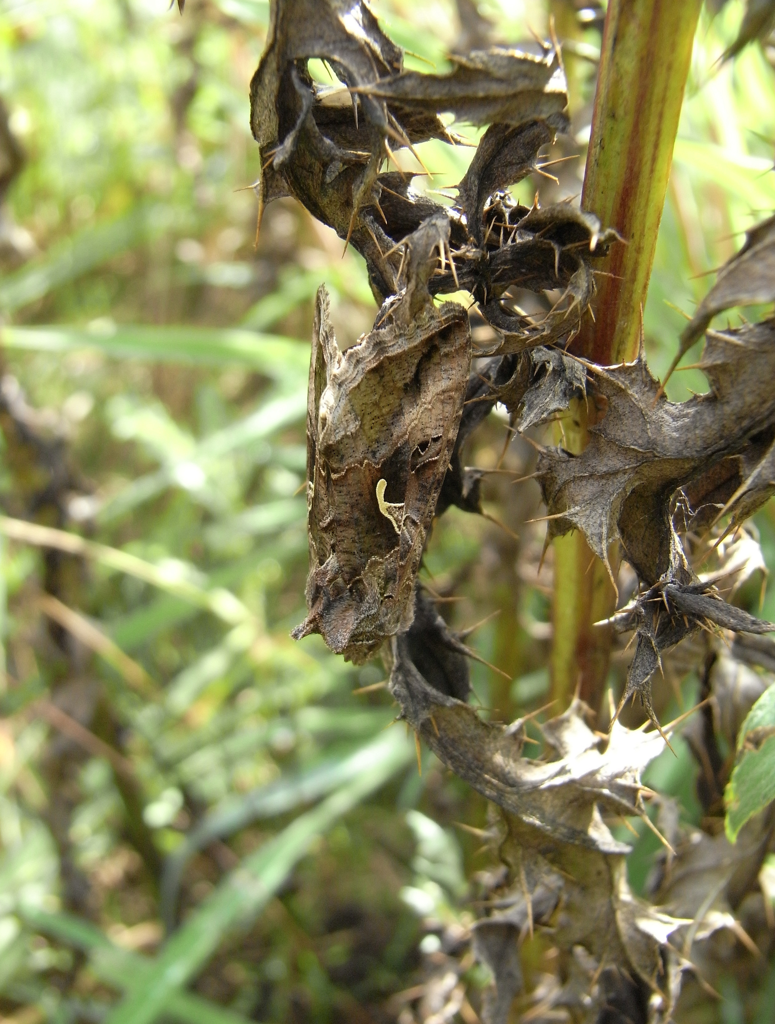 Silver Y (Autographa gamma) near Hamburg, Germany, well camouflaged.